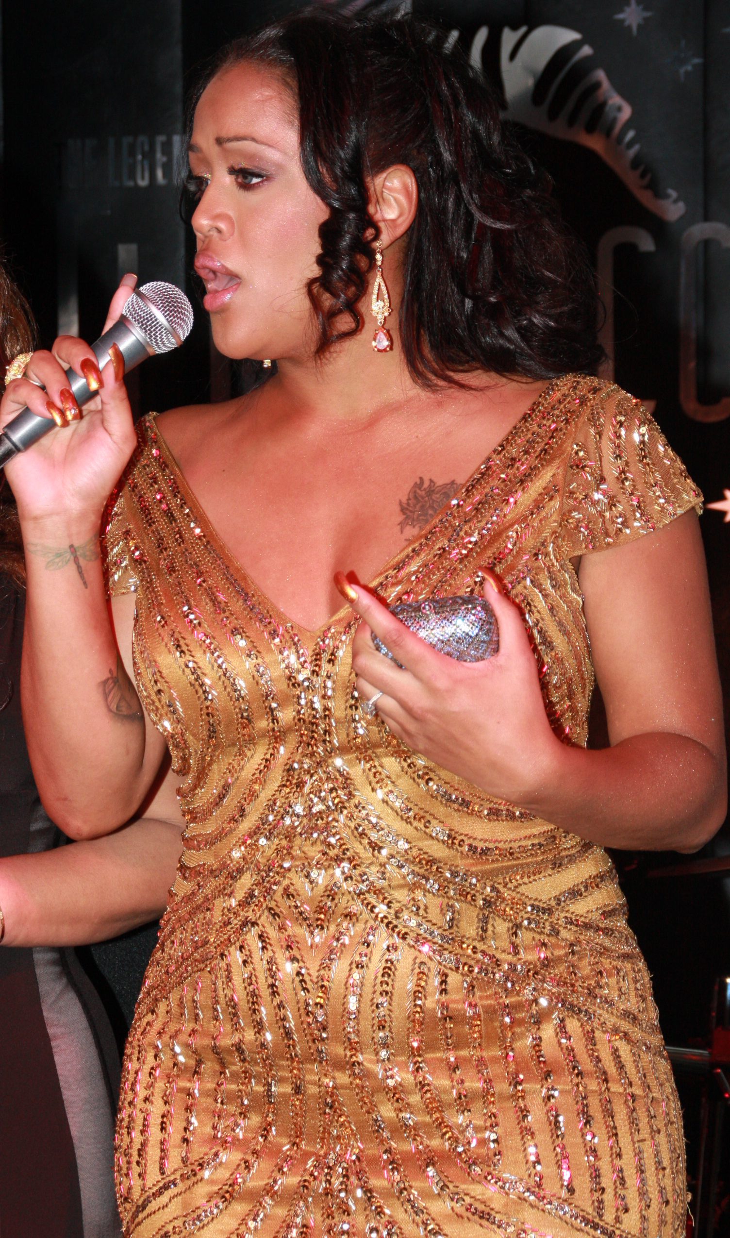 adjusted version of Image:Anaís.jpg